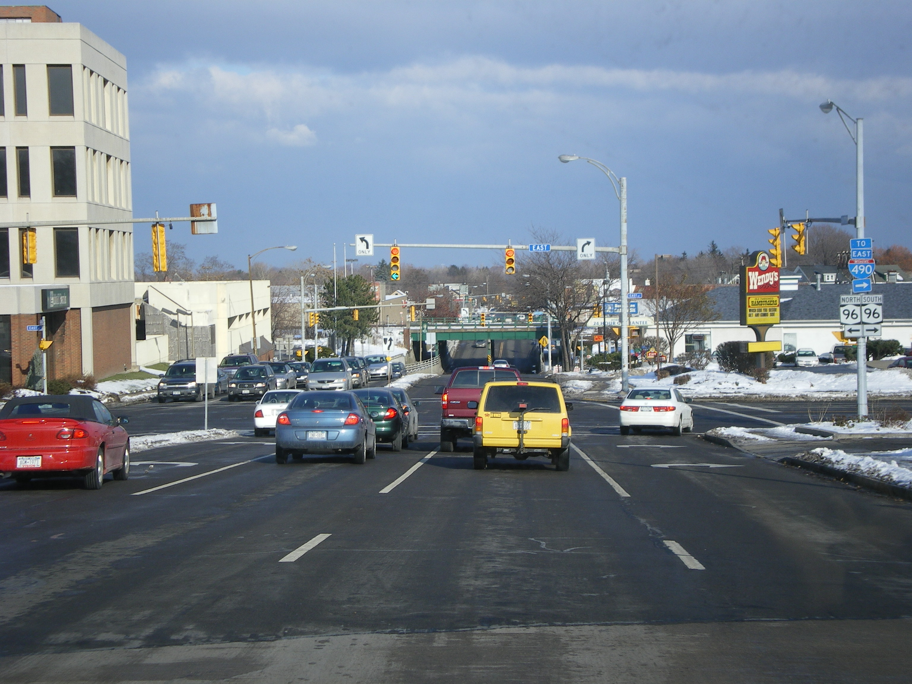 The intersection of East Avenue (New York State Route 96) and Winton Road (former New York State Route 47) in eastern Rochester, New York. NY 47 was routed off Winton sometime before 1965. Incidentally, although NY 96 continues west along East Avenue and is signed as such here, there is no signage on NY 96 indicating its designation west of Winton Road.